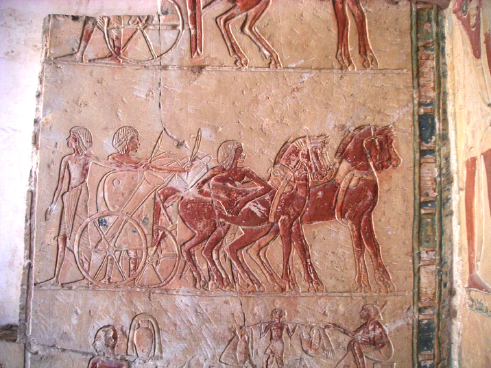 Relief of Horemheb's tomb - 18th dynasty of Egypt - Saqqara